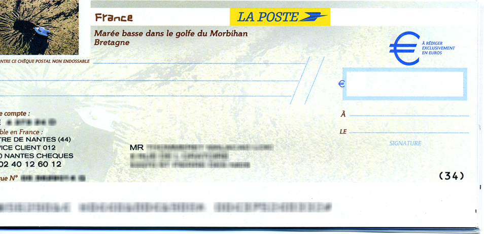 An example of anglicism introduced into the French language by the French Postal BankL replacing the customary French abbreviation for "Monsieur" "M." with the English "Mr".